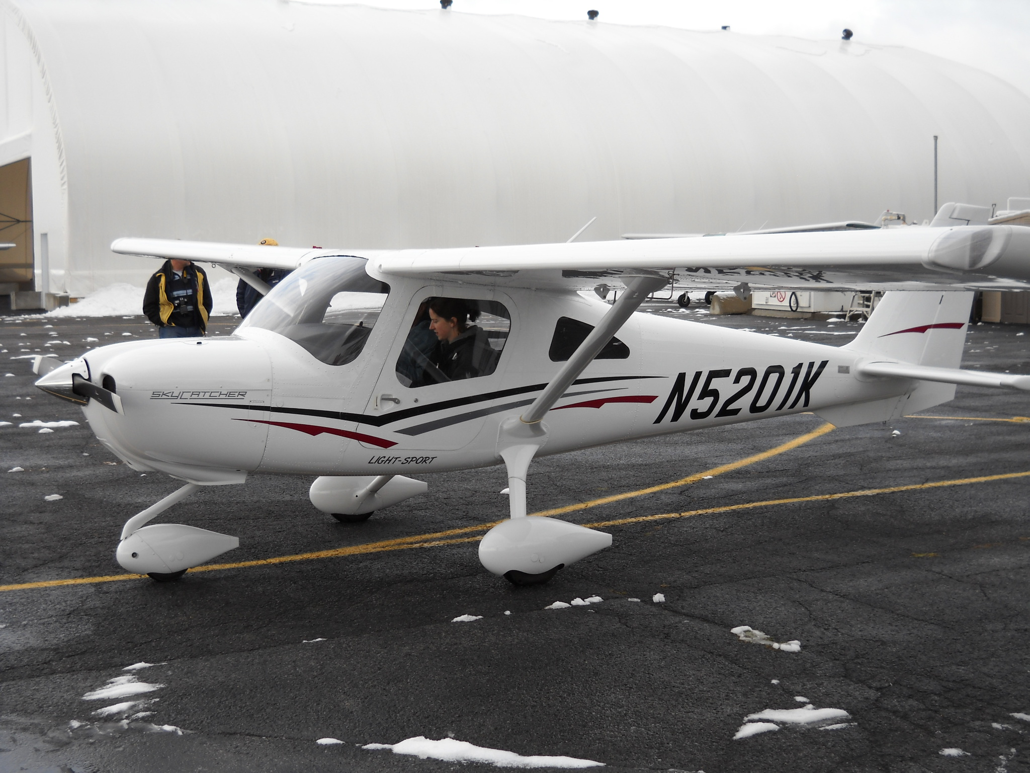 Cessna 162 Skycatcher serial number 16200010 at the Ottawa Flying Club